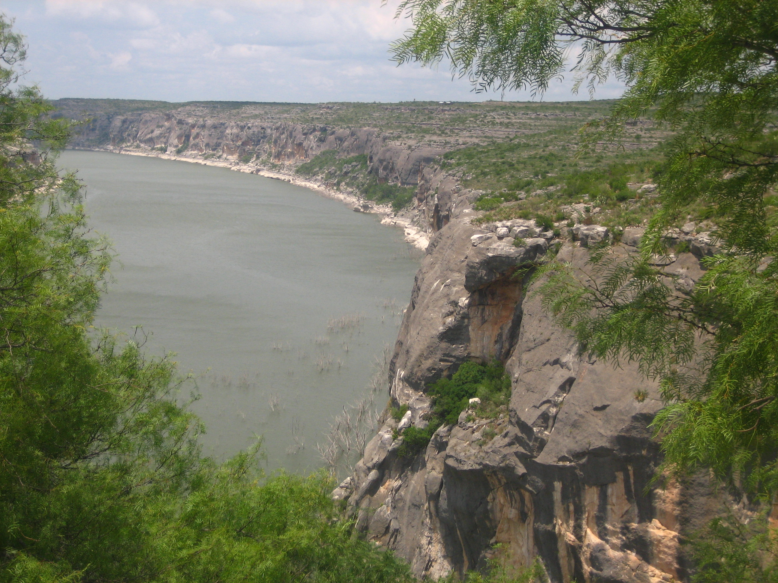 I took photo on July 9, 2008.Billy Hathorn (talk) 01:56, 28 July 2008 (UTC)